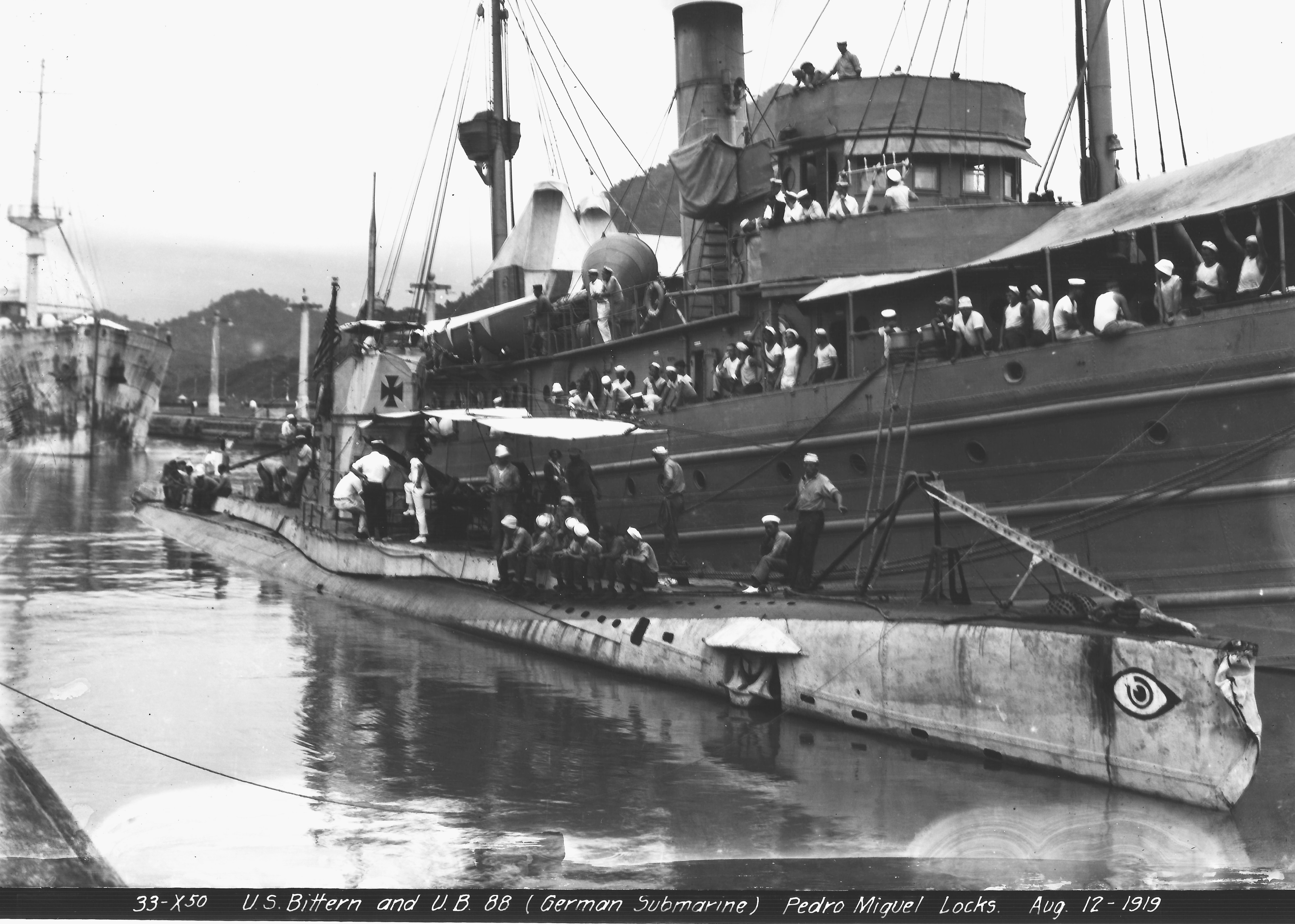 Photo of USS Bittern with UB88 captured German U-Boat at Pedro Miguel Panama Canal Aug 1919